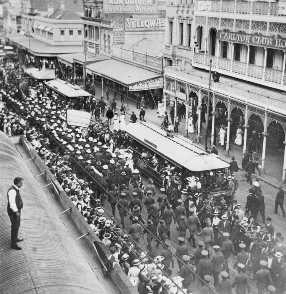 Dungarees marching along Queen Street, Brisbane, 1915 The Dungarees marched from Warwick to Brisbane. (Description supplied with photograph.). The March of the Dungarees was one of the recruiting marches organised during 1915 and 1916. The march began in Warwick, with 30 men who marched to Brisbane via Toowoomba, Laidley and Ipswich, picking up volunteers as they went through each town. They covered a distance of 160 miles and finished in Brisbane with 125 recruits. Some members of the crowd can be seen watching from trams.